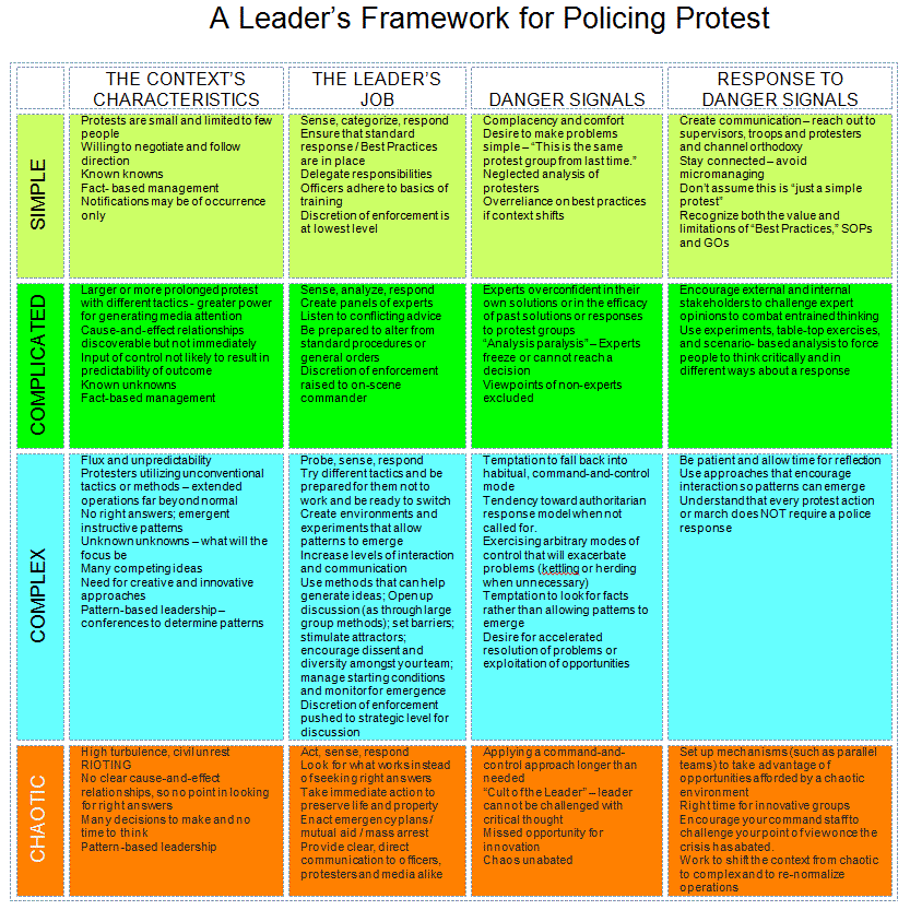 Using the Cynefin framework as a “sense-making” framework provides a strategic option for policing twenty-first century protest. This graphic is designed to assist police executives in a strategic response to protests and demonstrations.